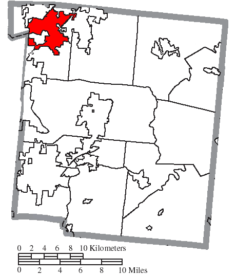 Map of the municipal and township boundaries of Warren County, Ohio, United States, as of the 2000 census, with the location of the city of Franklin highlighted. Township borders are shown only in unincorporated areas in order to differentiate incorporated and unincorporated areas more clearly.